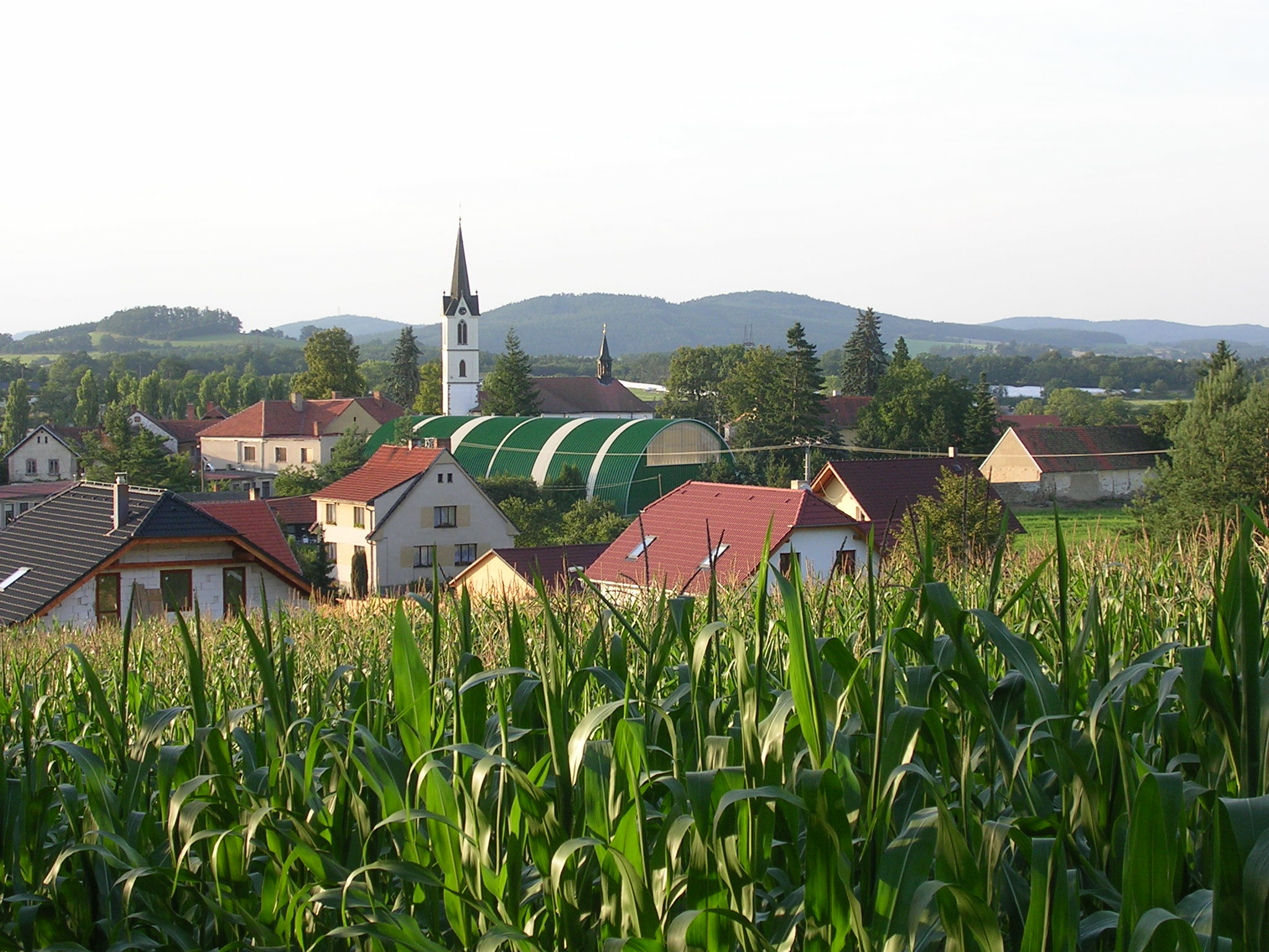 Dublovice, Příbram District, Central Bohemian Region, the Czech Republic. A church. - Google Maps - Google Earth